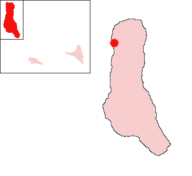 N'Tsaoueni, Grande Comore, Comoros Location Map; created with the GIMP. Made by User:Acntx.